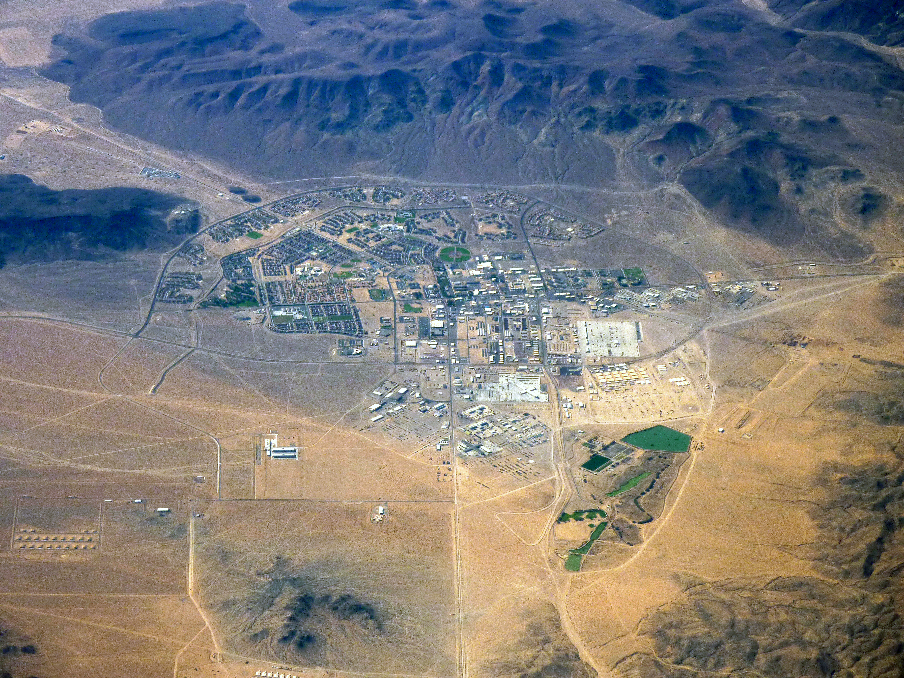 Aerial view of the Fort Irwin Military Reservation central base area in the Mojave Desert, located in San Bernardino County, California.